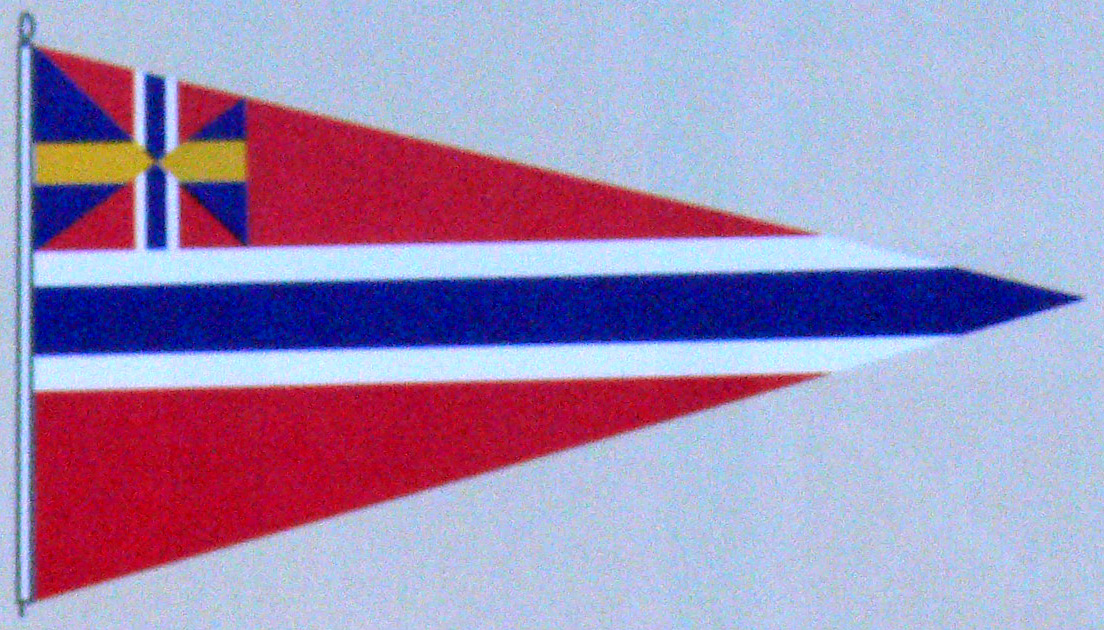 Norwegian command flag. Squadron Commander. 1858-1875.